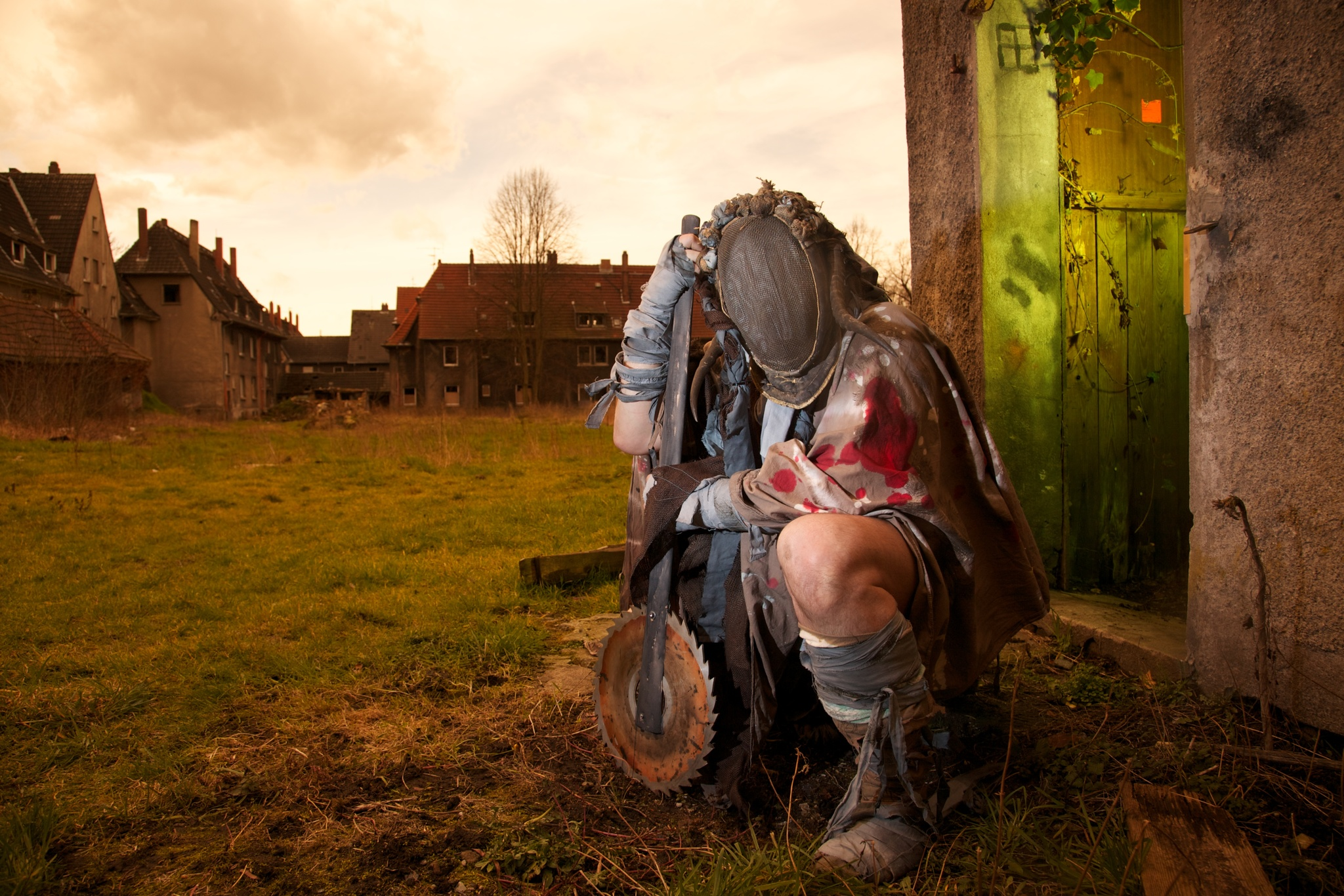 LARP: Player depicting a post-apocalyptic setting